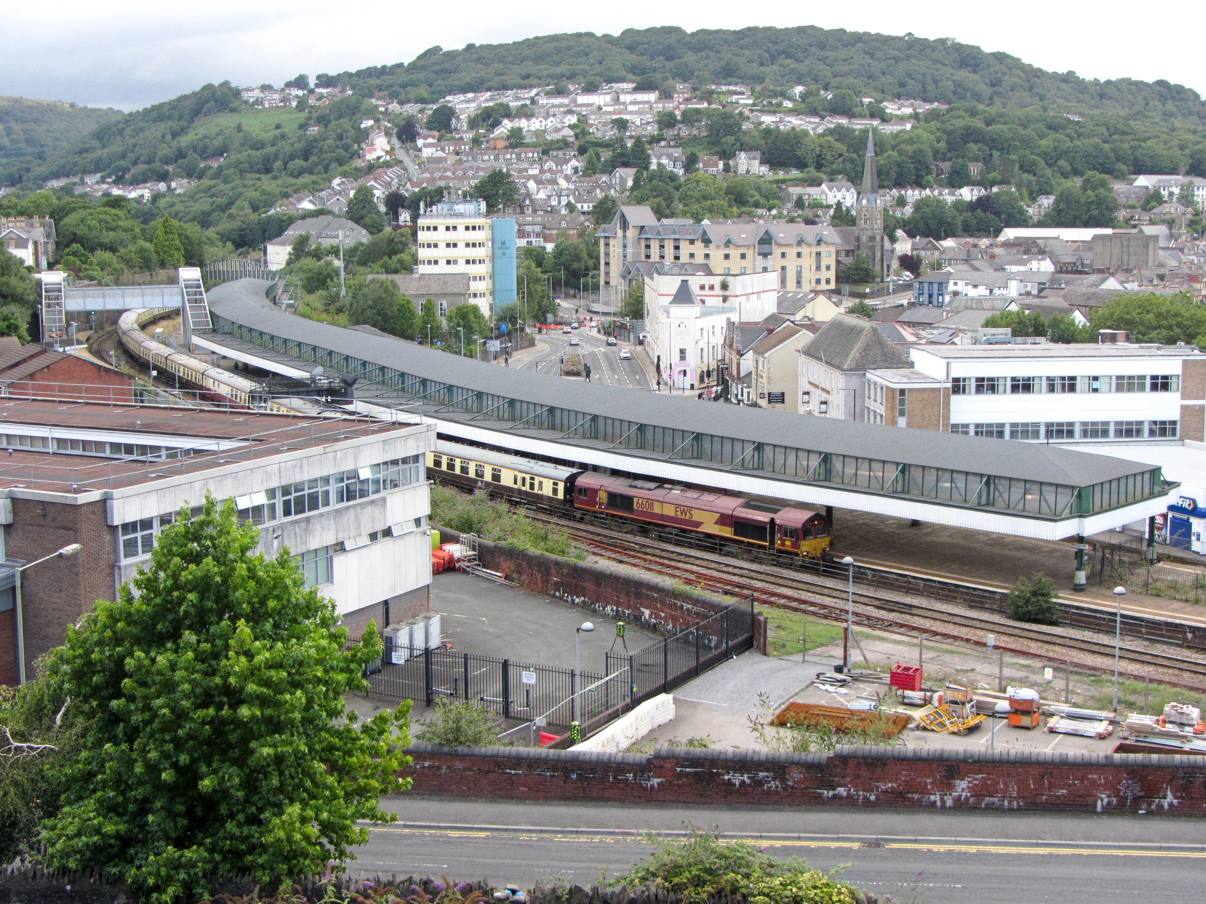 Railtour at Pontypridd. UK Railtours brought a pair of class 66 locomotives, Nos. 66011 and 66116, in top-and-tail formation, to South Wales on their Valley Legend railtour. The tour visited the Ebbw Vale and Tower Colliery branches, and is seen here passing through Pontypridd on its return from Tower.